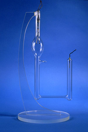 Krypton-86 lamp used for definition of Metre between 1960 and 1983. Exhibited at room 6 of NIST's museum, according to source.